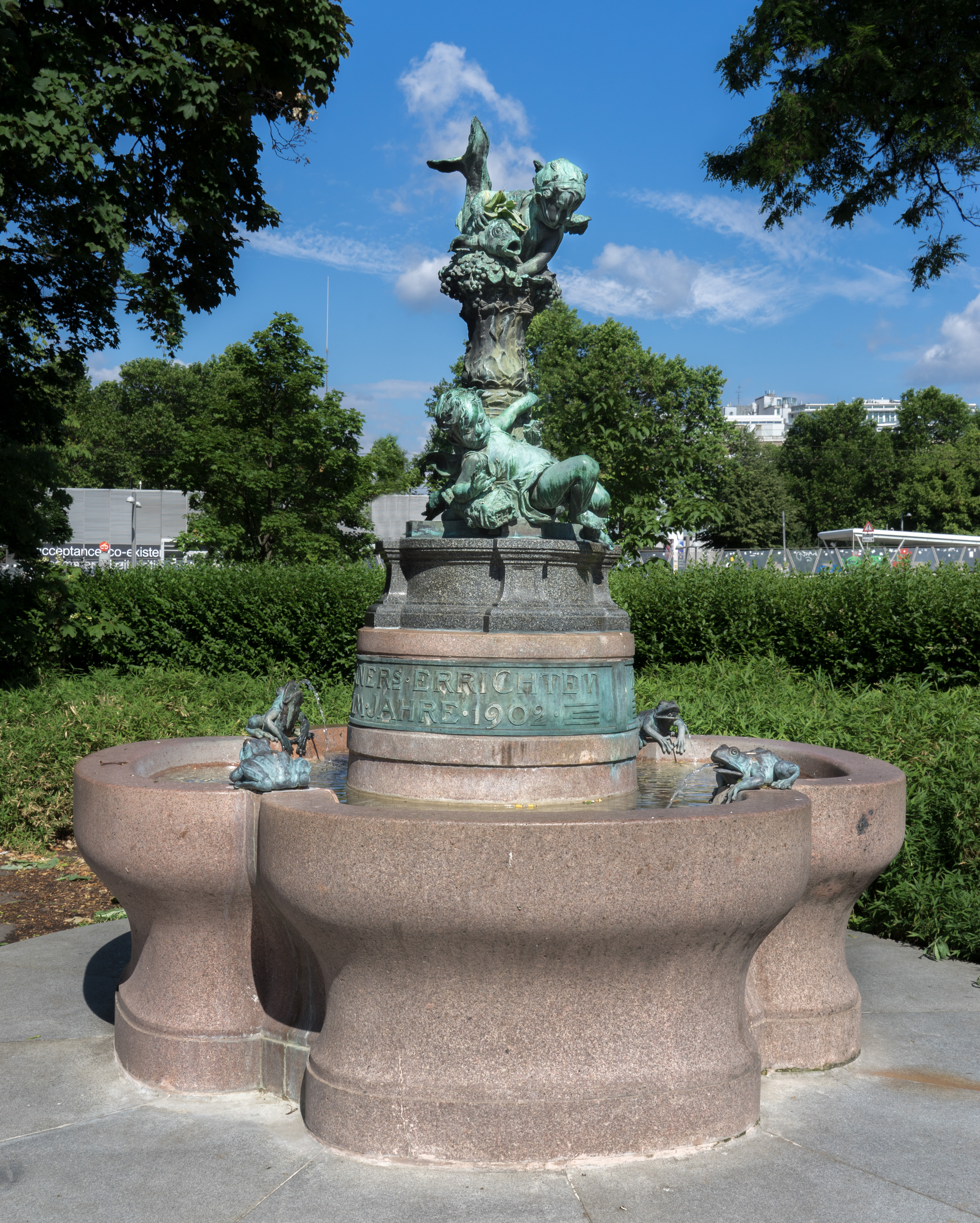 Tilgner-fountain at Karlsplatz, Vienna, Austria